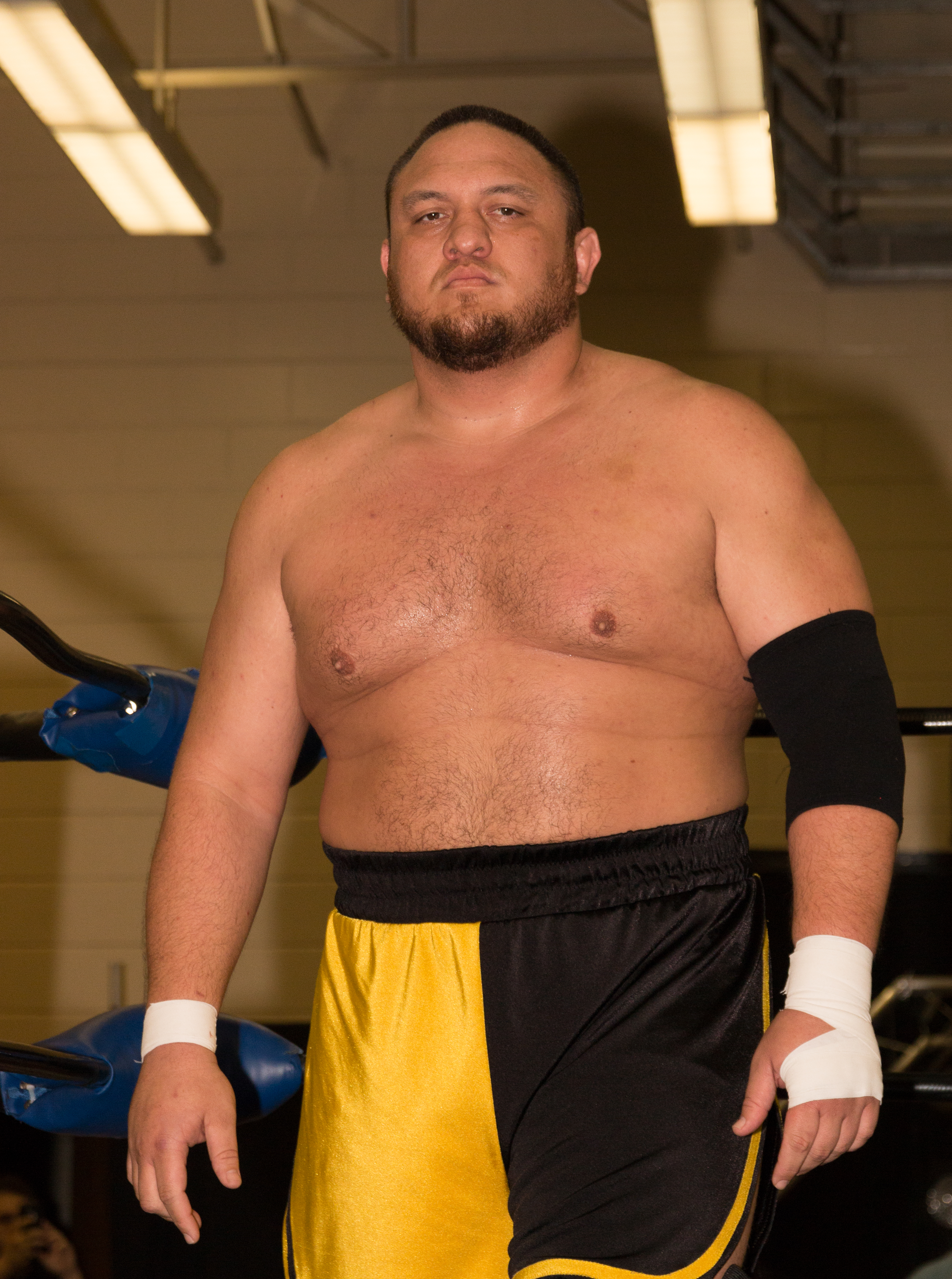 Independent wrestler Samoa Joe pre-match at Smash Wrestling's Smash & DRIcore Kicks ALS show in Etobicoke, ON